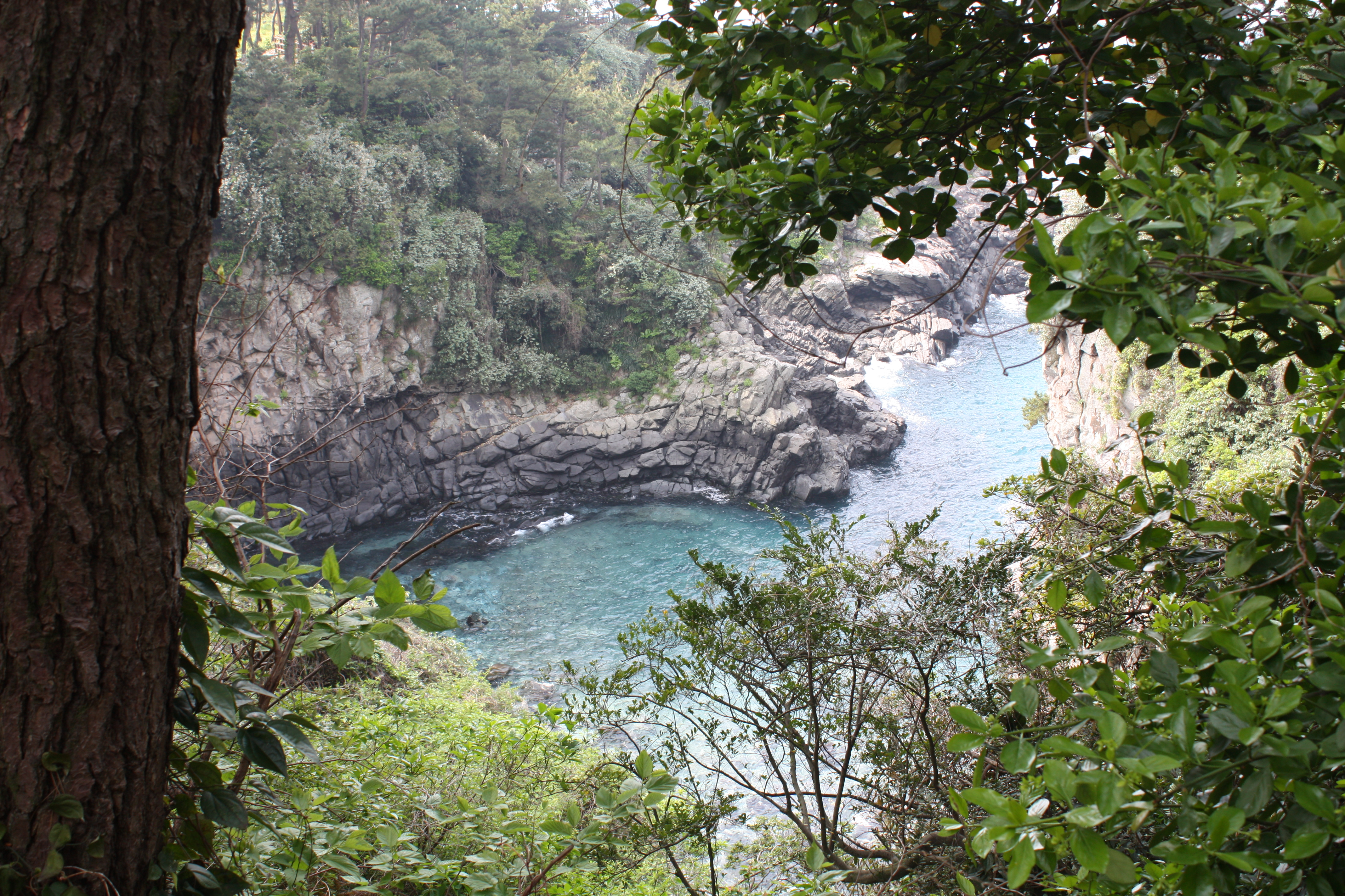 This is the Gangjeong river that visitors can see in course 7 of Ollegil in Jeju island.